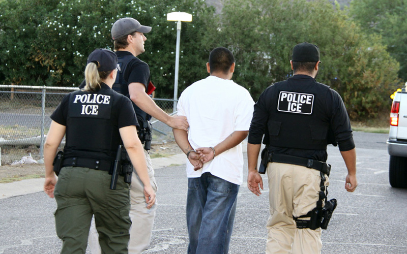 This photo comes from the second national wave of Operation Cross Check, an effort by ICE to arrest and deport undocumented immigrants with criminal records. Over 2,900 people were arrested and 18 weapons were confiscated. ( Press release], September 28, 2011.)